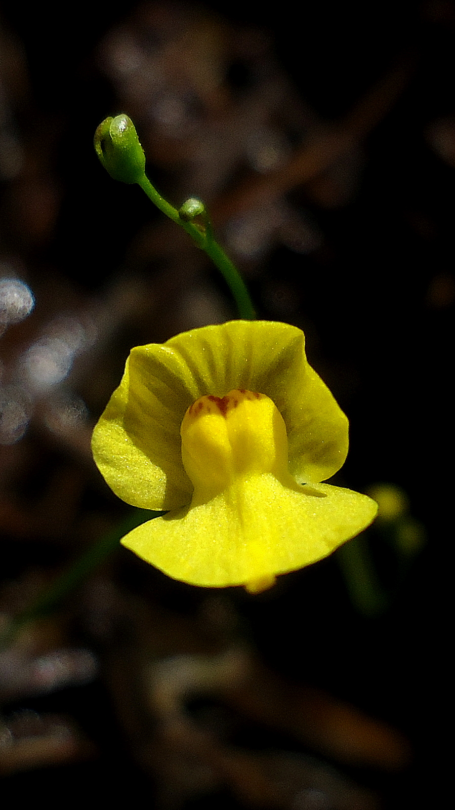 Utricularia gibba flower